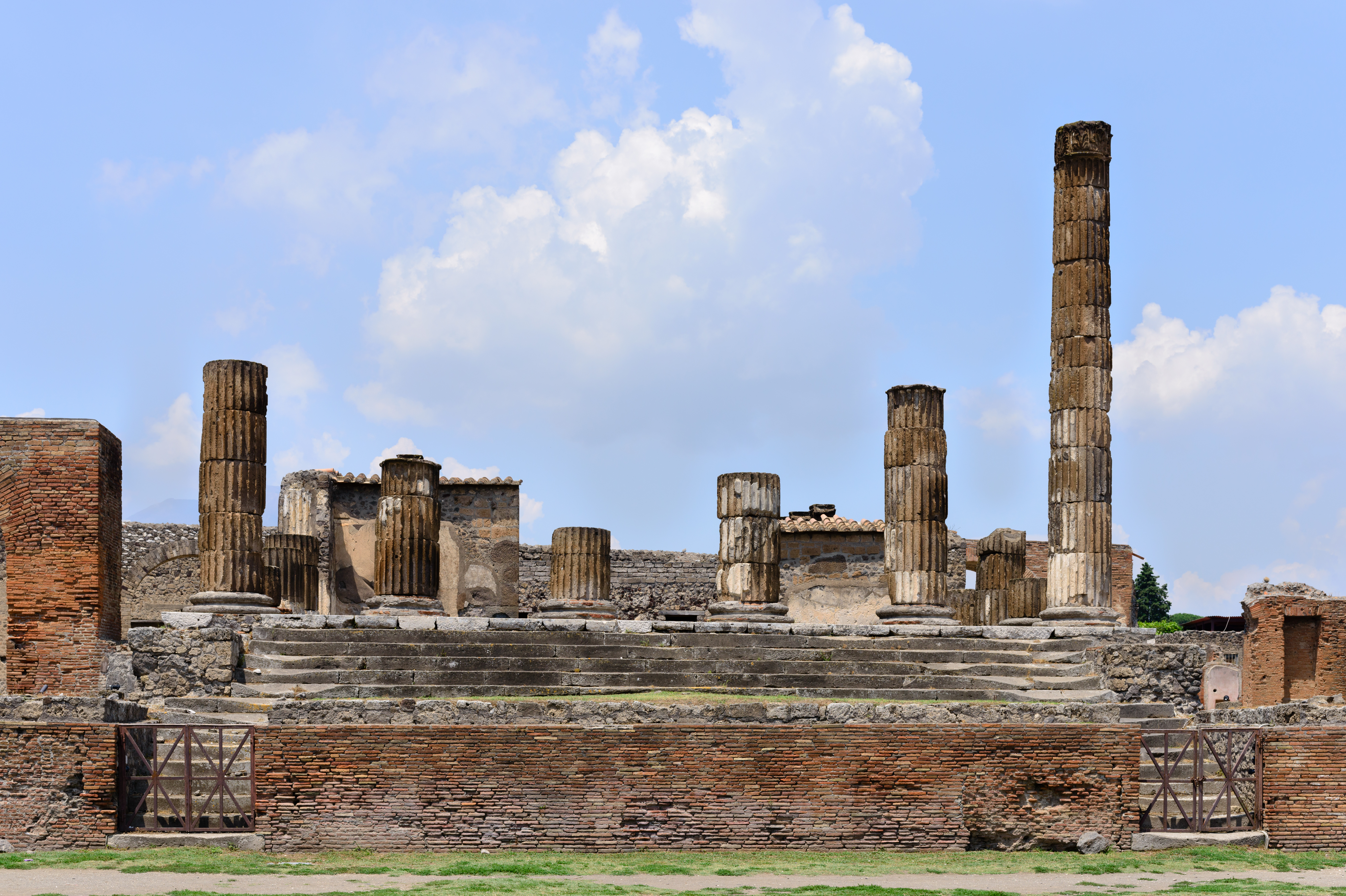 Forum, ancient Roman Pompeii, Campania, Italy.